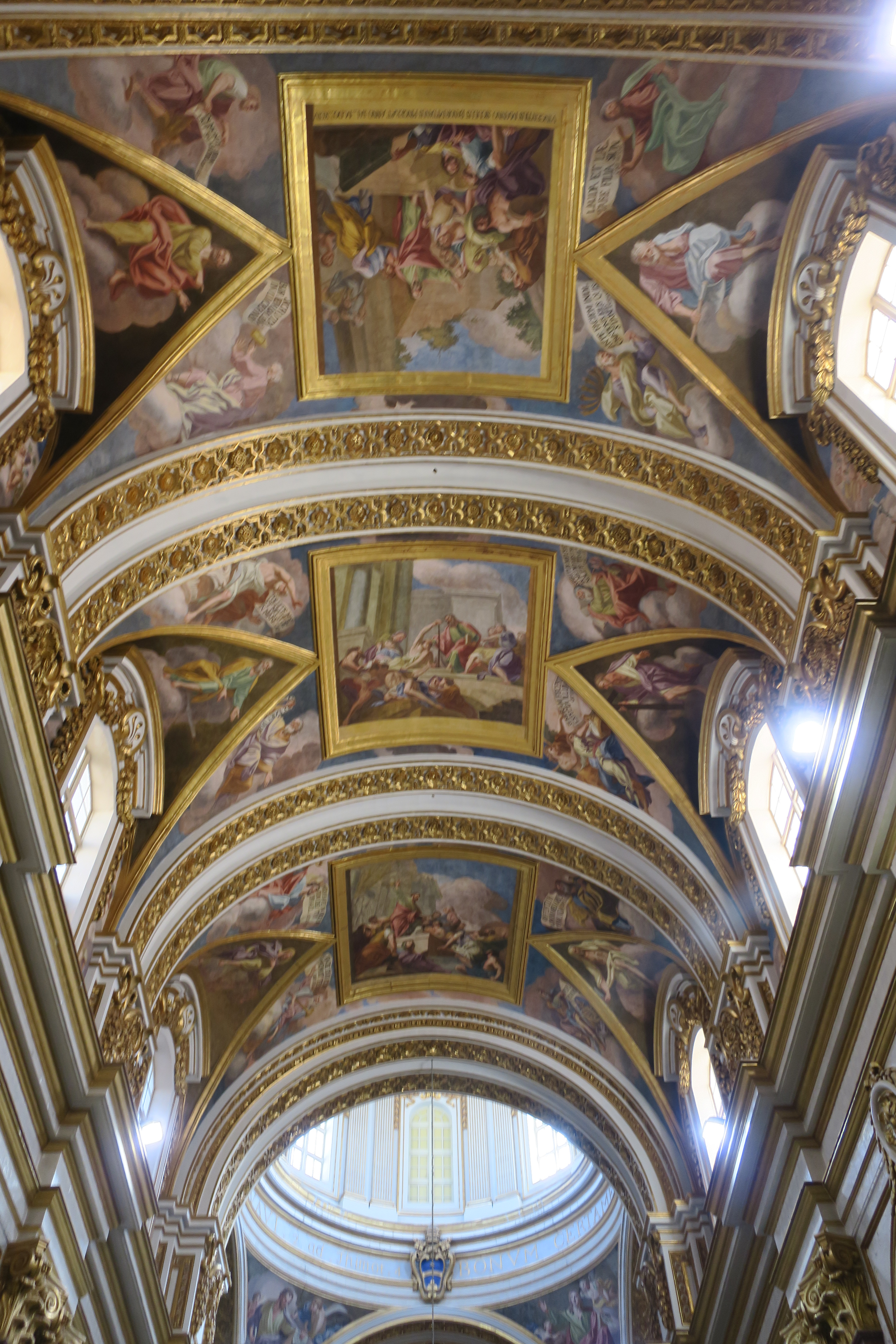 Ceiling, St. Paul's Cathedral, Mdina